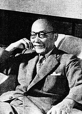 Yusai Takahashi